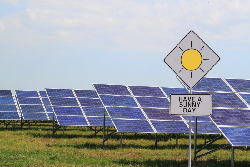 Dunayskaya solar station